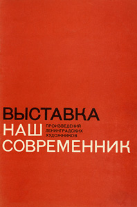 Cover of the catalog of Exhibition of works by Leningrad artists of 1971